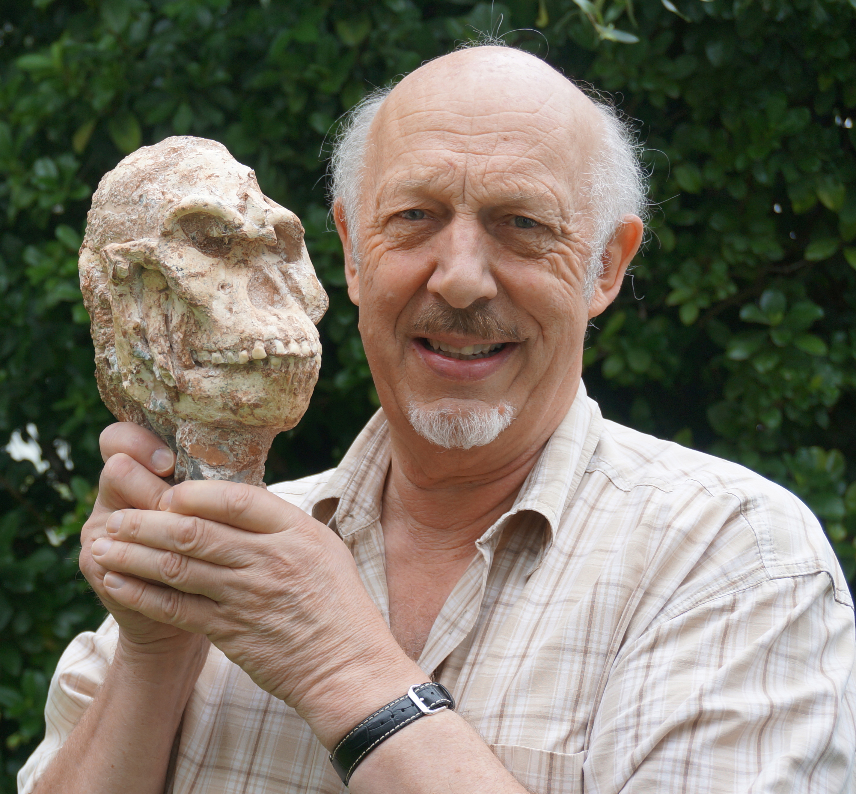 Professor Ron Clarke from Wits University is shown with skull of Little Foot (StW 573).